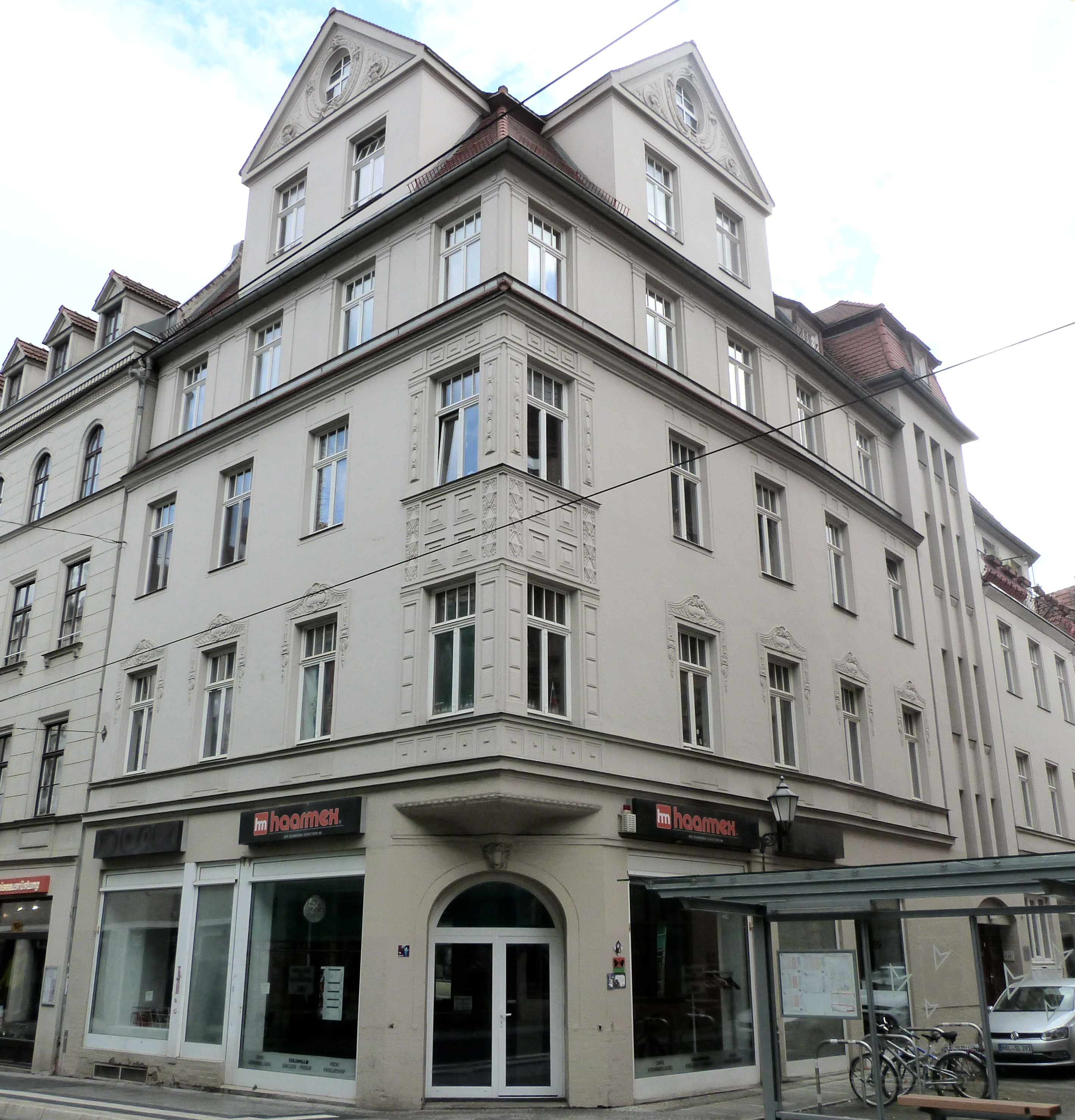 House No. 31, Grosse Ulrichstrasse, Halle (Saale)